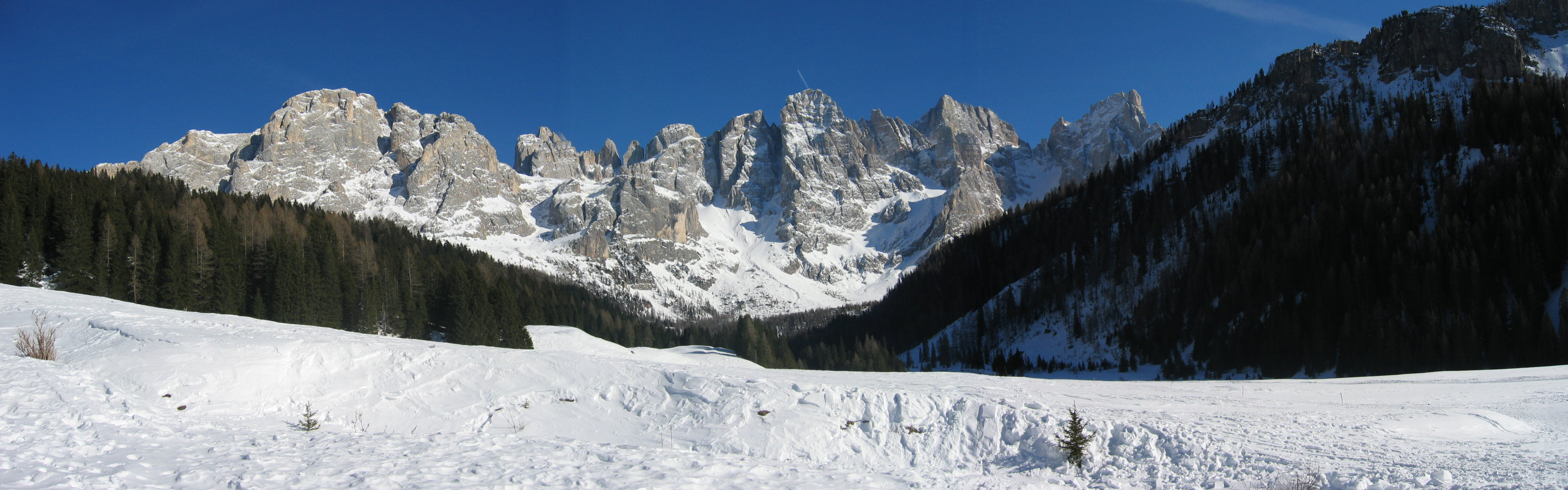 A panorama of Pale di San Martino di Castrozza (of the Dolomiti group) seen from Calaita lake in the comune of Canal san Bovo, Italy.